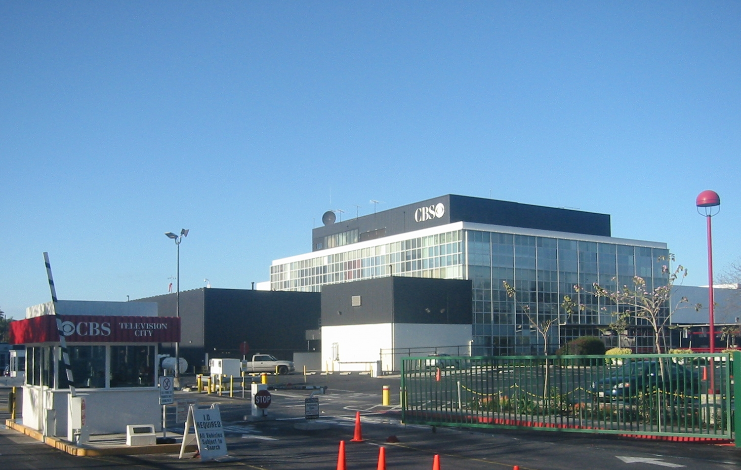 CBS Television City — on Beverly at Fairfax, in the Fairfax District of Los Angeles, California. The 1952 Modernist style complex was designed by William Pereira.